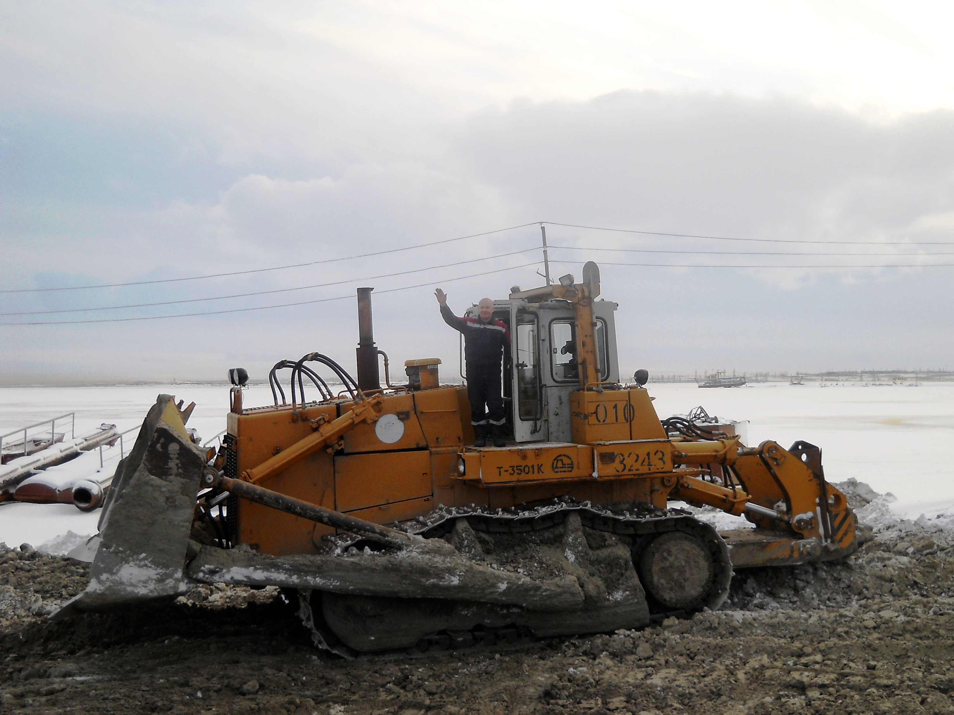 Bulldozer T-35.01 (built by LLC “Laukar”) in Yamal, 2010